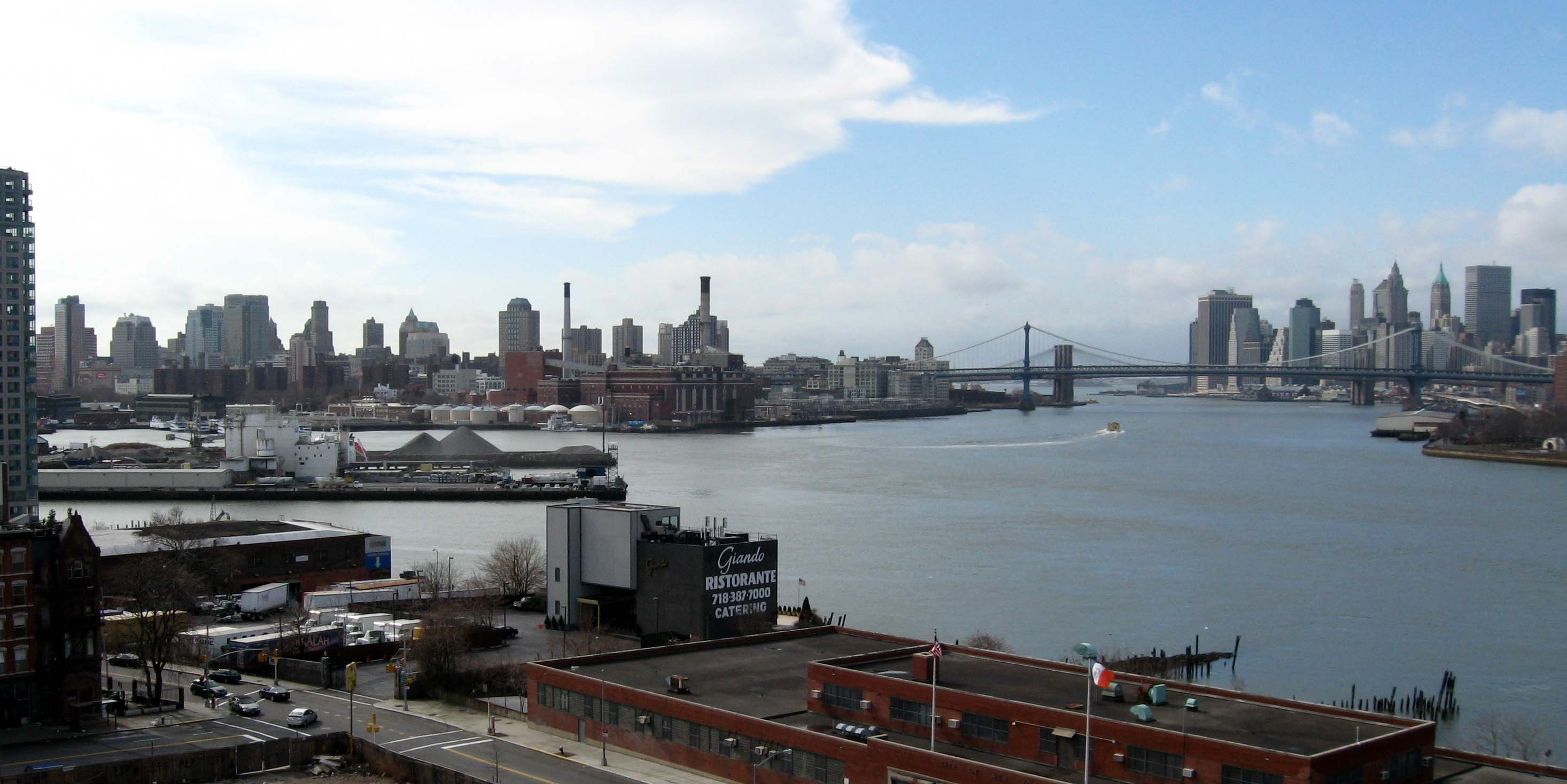 Looking south across Wallabout Bay, from Brooklyn pier walkway of Williamsburg Bridge, on a partly cloudy winter midday.